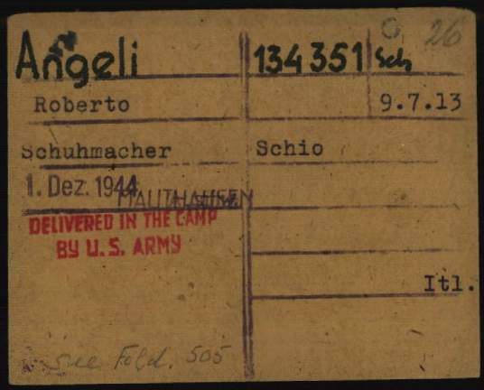 Registration card of Roberto Angeli as a prisoner at Dachau Nazi Concentration Camp. Red stamp means he was liberated from Dachau by the U. S. Army.